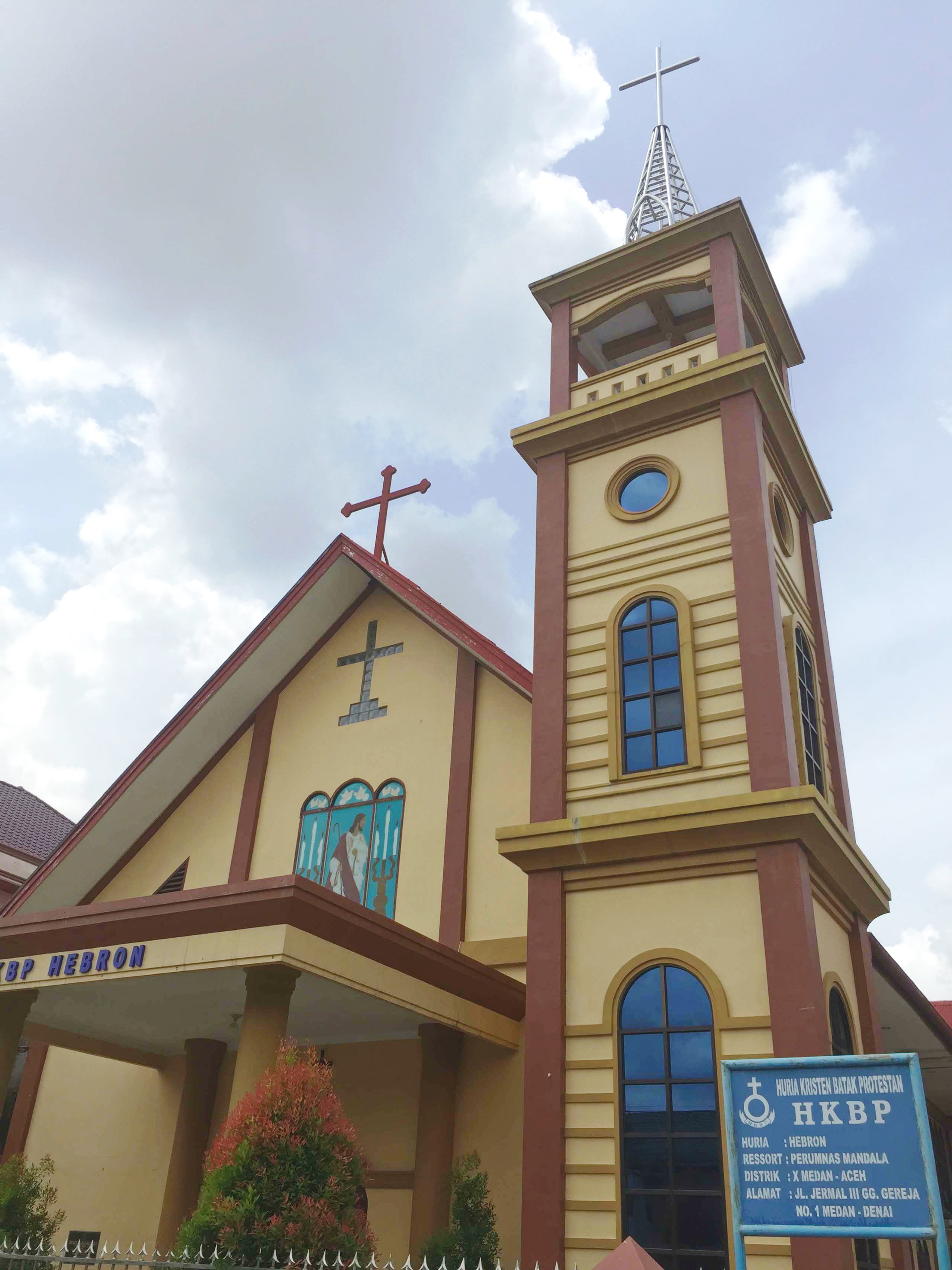 HKBP Hebron, Res. Perumnas Mandala Church in Denai, Medan Denai, Medan